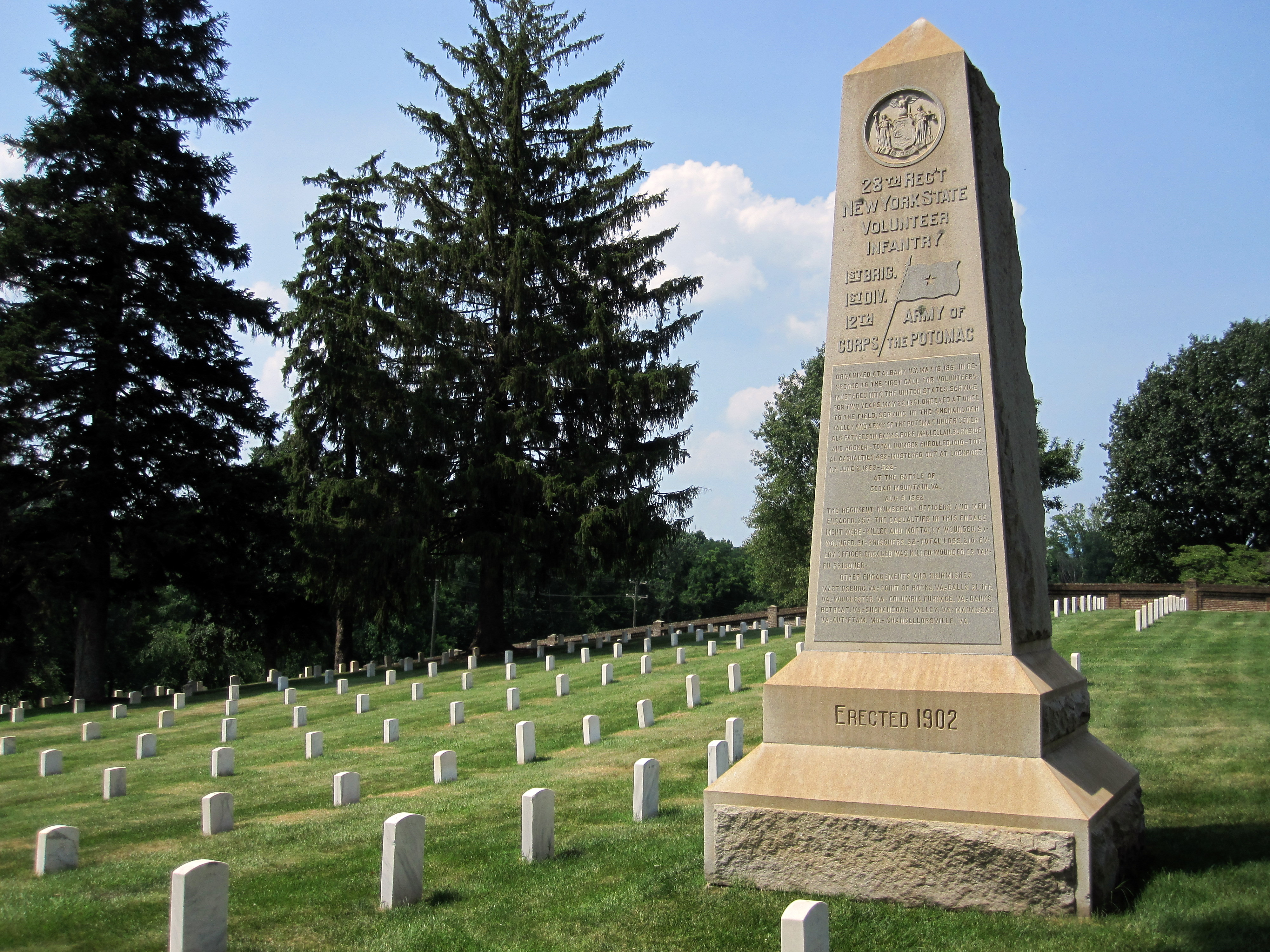 Memorial erected at Culpeper National Cemetery, 1902, to those members of the Twenty-eighth Regiment New York Volunteer Infantry who died at the Battle of Cedar Mountain.